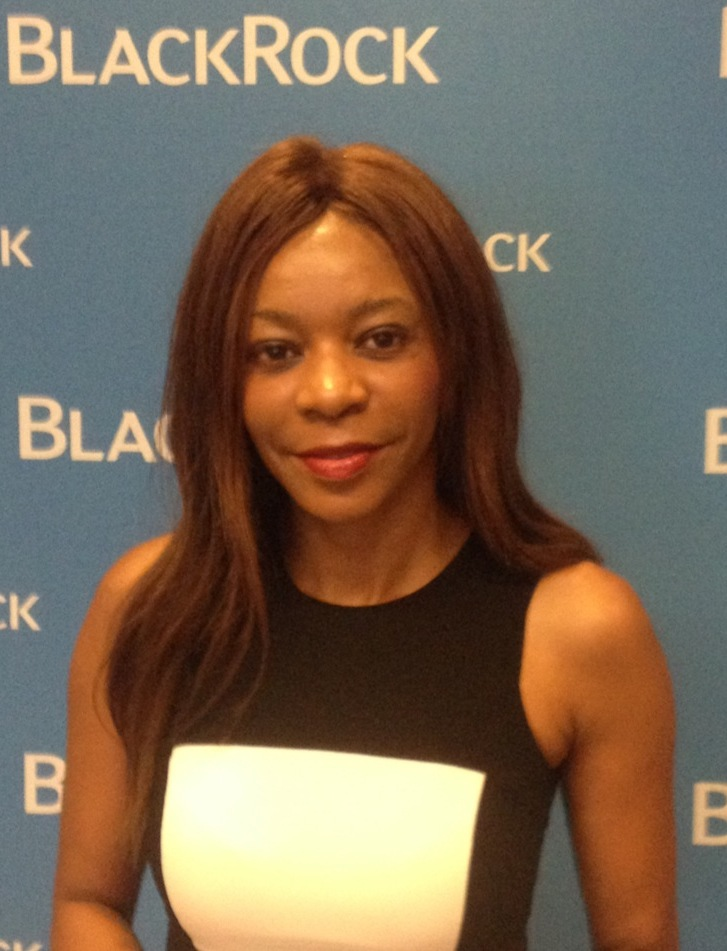 The economist Dambisa Moyo at a 2013 event.